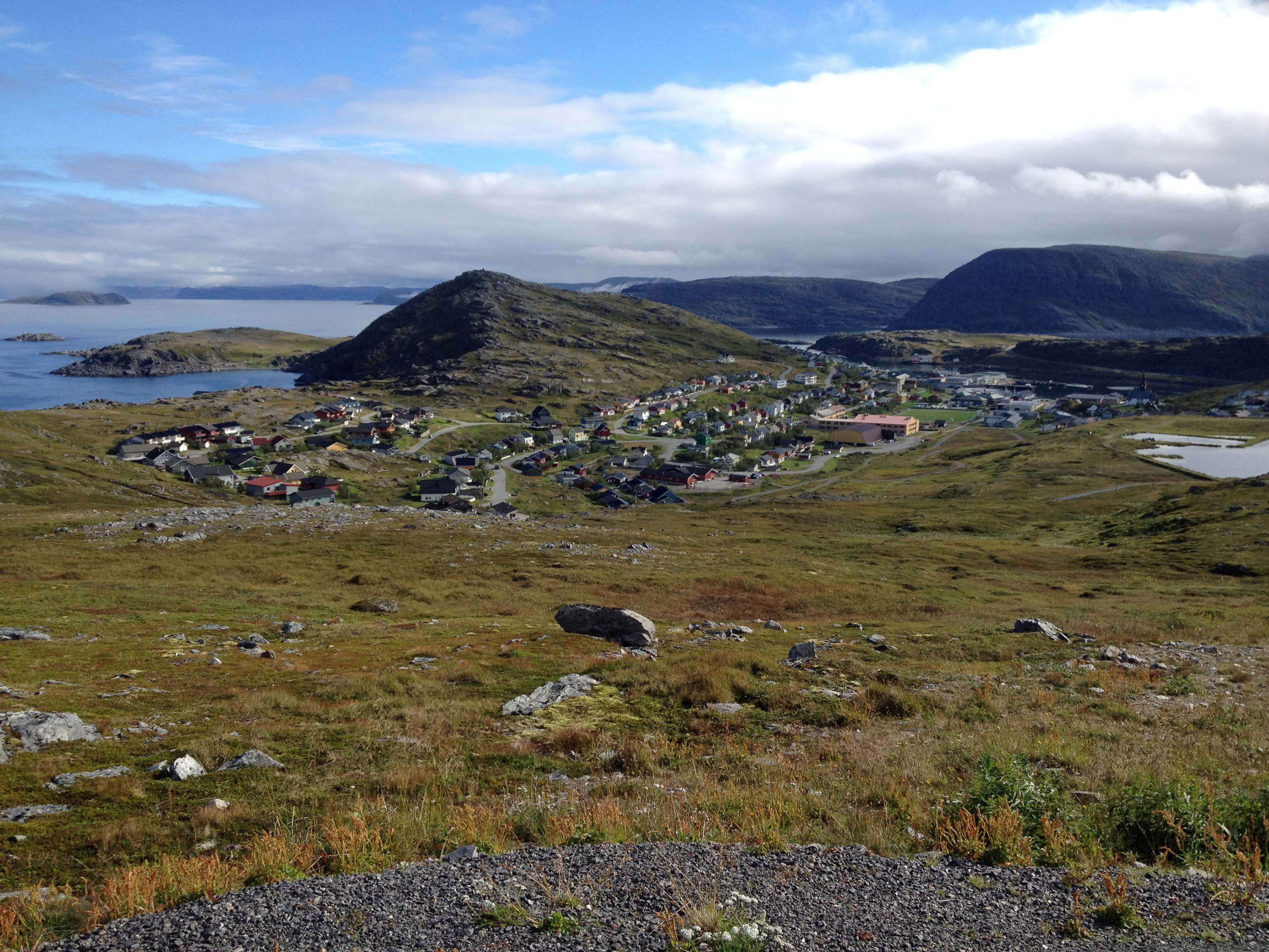 Havøysund, Finnmark, Norway